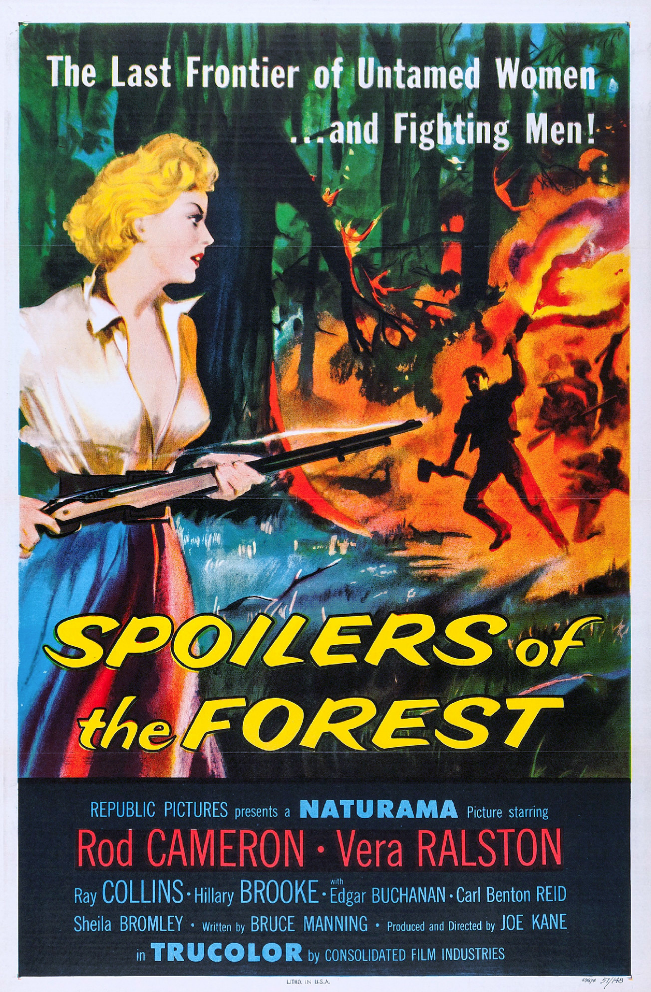 Poster for the 1957 film Spoilers of the Forest. There are no copyright marks. At bottom is Litho in USA and 49674 57/148.